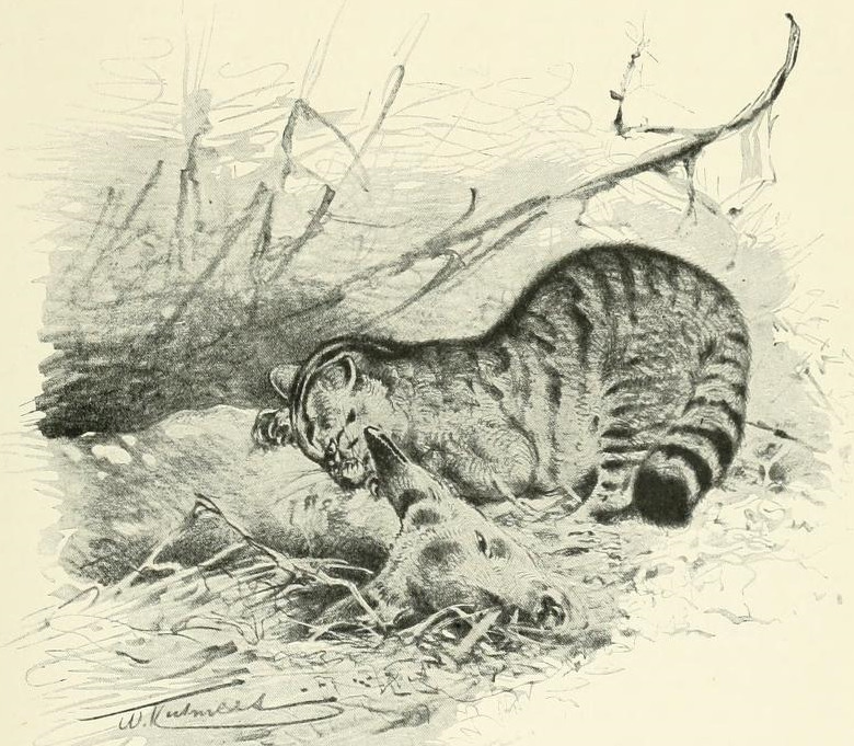 Sketch of a European wildcat killing a deer fawn